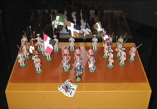 New France Regiments